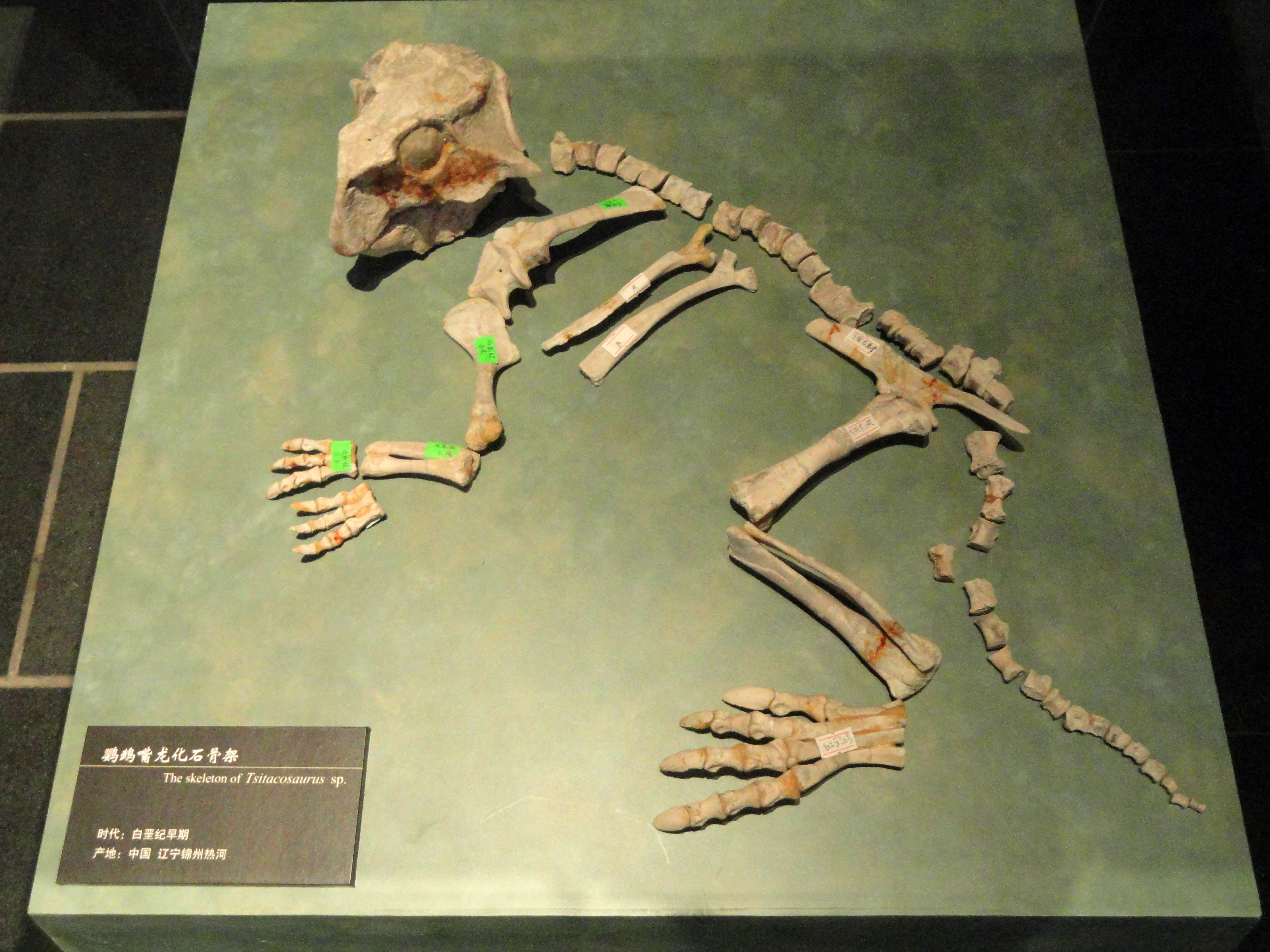 Fossil exhibit in the Kunming Natural History Museum of Zoology (昆明动物博物馆), Kunming, Yunnan, China.